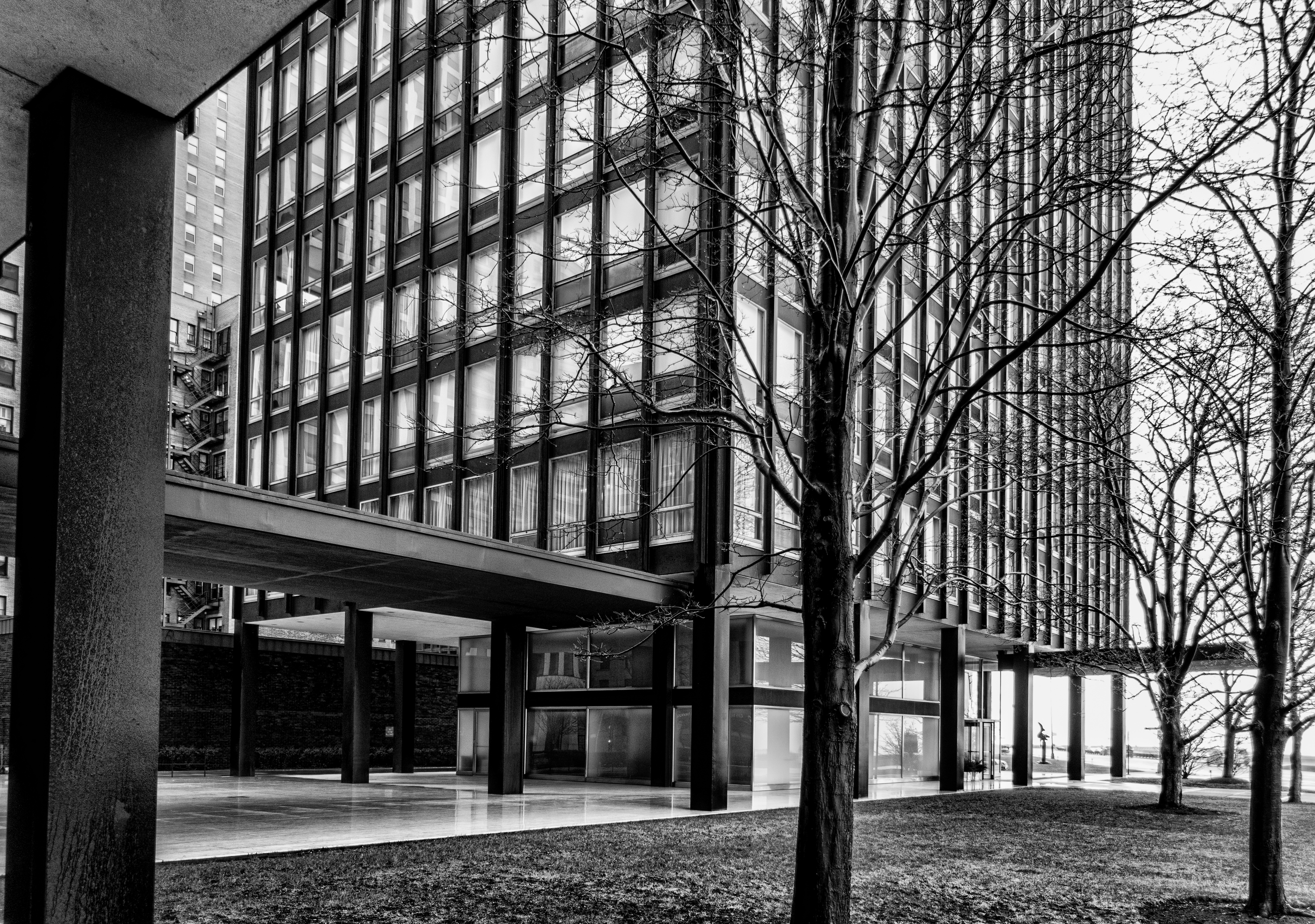 880 Lake Shore Drive taken from 860 Lake Shore Drive